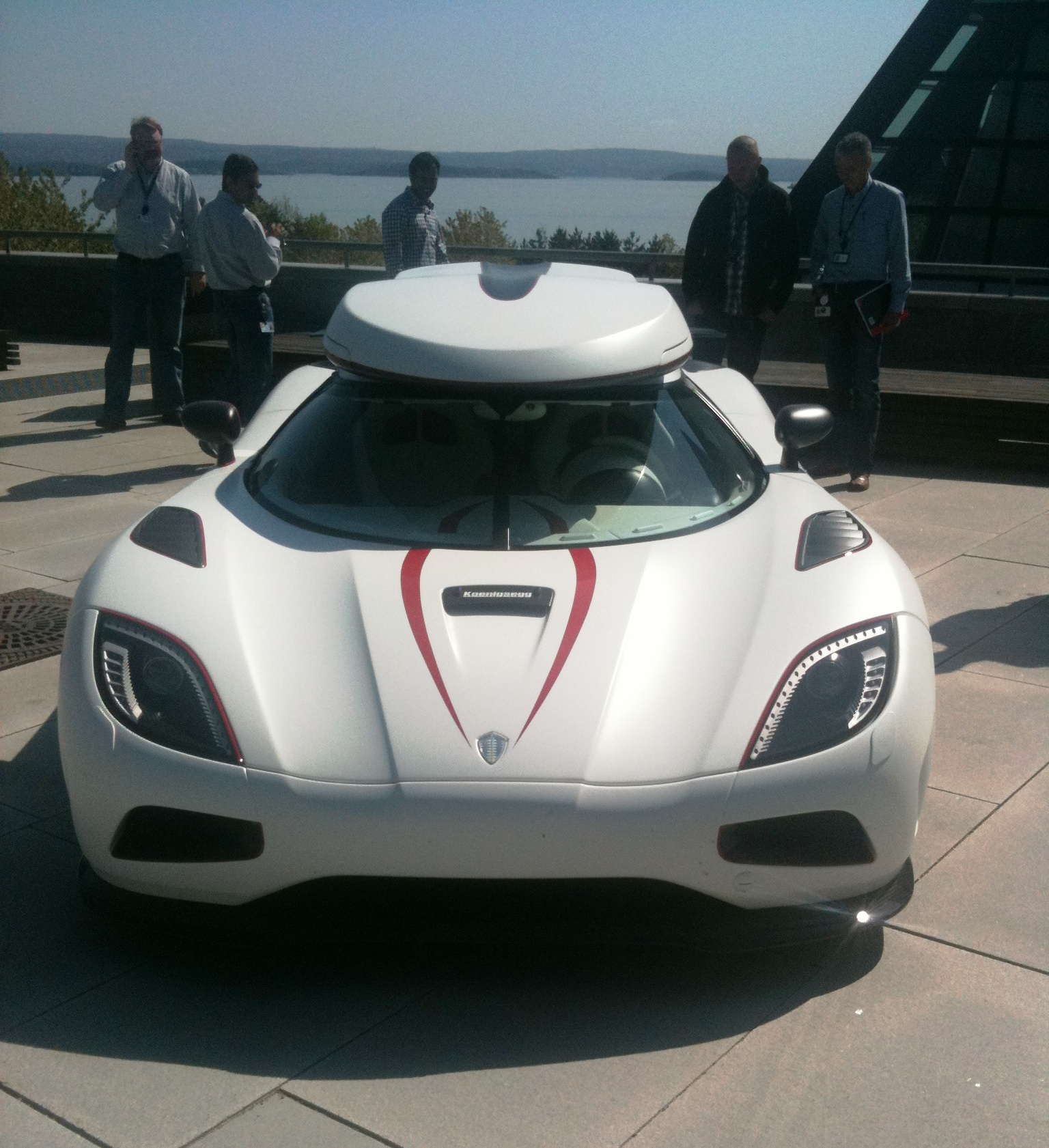 Koenigsegg winter edition, at Telenor headquarters in Oslo, Norway